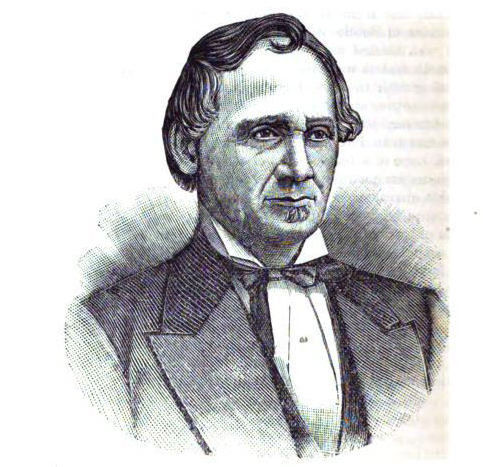 An 1887 engraving of John Dement (1804–1883), an officer in the Illinois Militia during the Black Hawk War. He also served in various political positions.